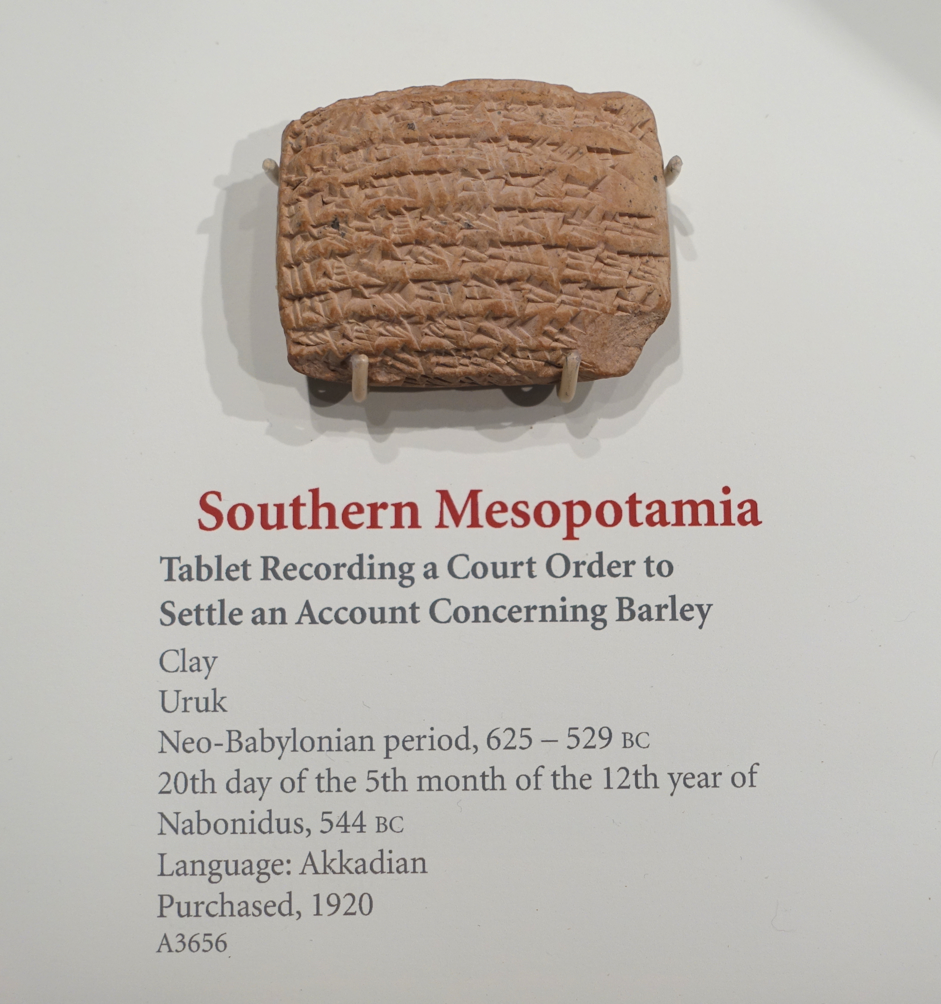 Exhibit in the Oriental Institute Museum, University of Chicago, Chicago, Illinois, USA. This work is old enough so that it is in the public domain.